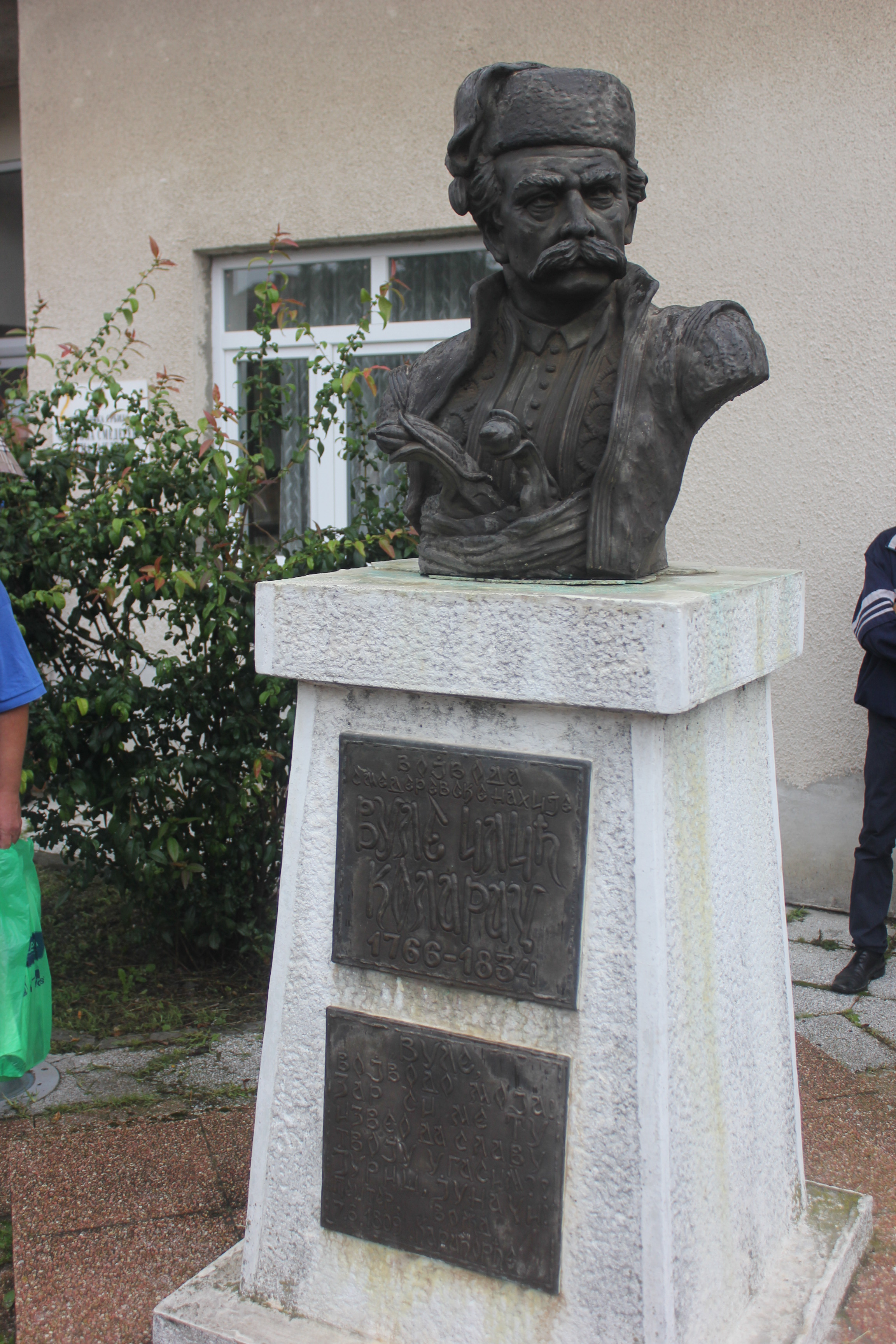 A monument to Vule Ilić Kolarac